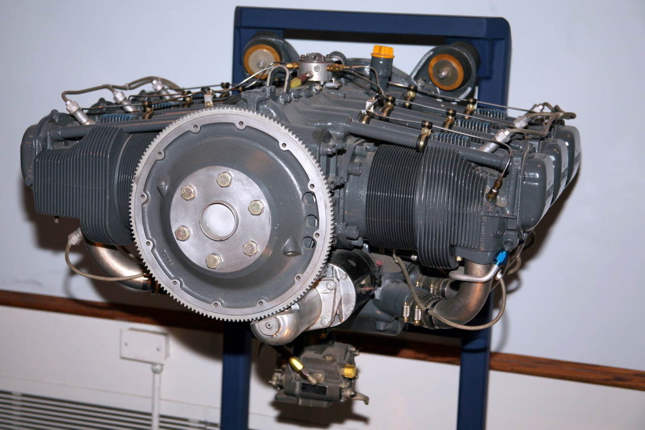 This basic Textron Lycoming O-540 is a high-performance, six-cylinder engine used in many general aviation aircraft. In modified form, it also powers many U.S. and European aerobatic aircraft. High-powered aircraft engines make possible complex maneuvers, such as multiple vertical snap rolls and knife-edge flight, required to win aerobatic competitions. Inverted fuel and oil accessories allow aircraft to be flown in unusual attitudes. The engine in Patty Wagstaff's Extra 260 was highly modified by Barrett Performance Aircraft, Inc. Major changes were made to increase its power, but also to provide strength for increased stress and strain in aerobatic flight. Modifications included increasing the compression ratio, modifying the cylinders to increase intake airflow and to match airflow in all of the cylinders, utilizing a cold air induction system, ensuring superior uniformity among parts, dynamically balancing the rotating assembly, and strengthening critical components. Wagstaff ran the engine continuously at and above the "red line" (maximum rpm).